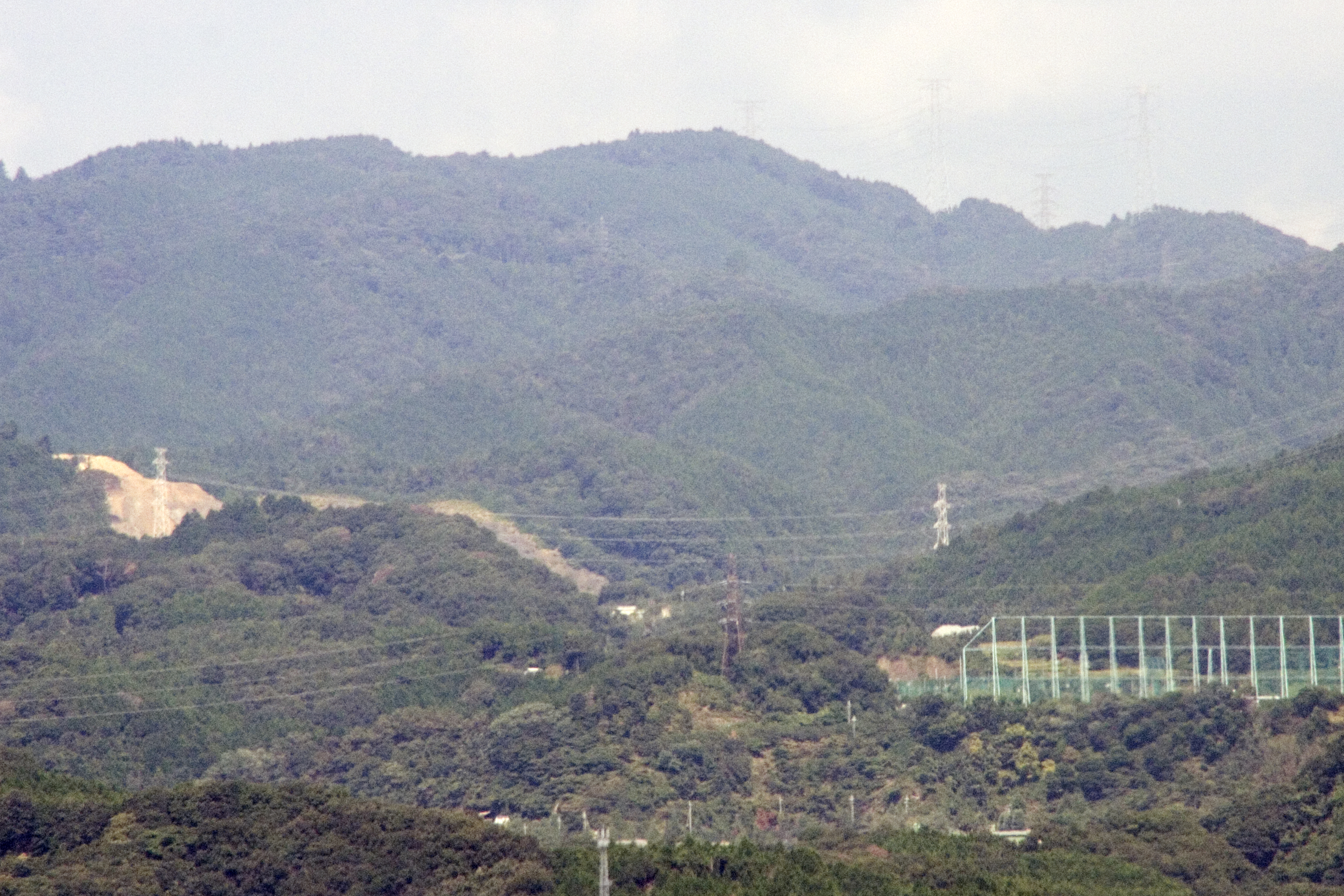 Mount Ponpon seen from the south.